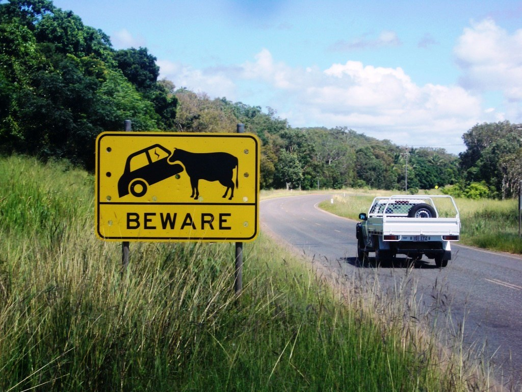 I took this photo on the road leading out of Cooktown in 2008